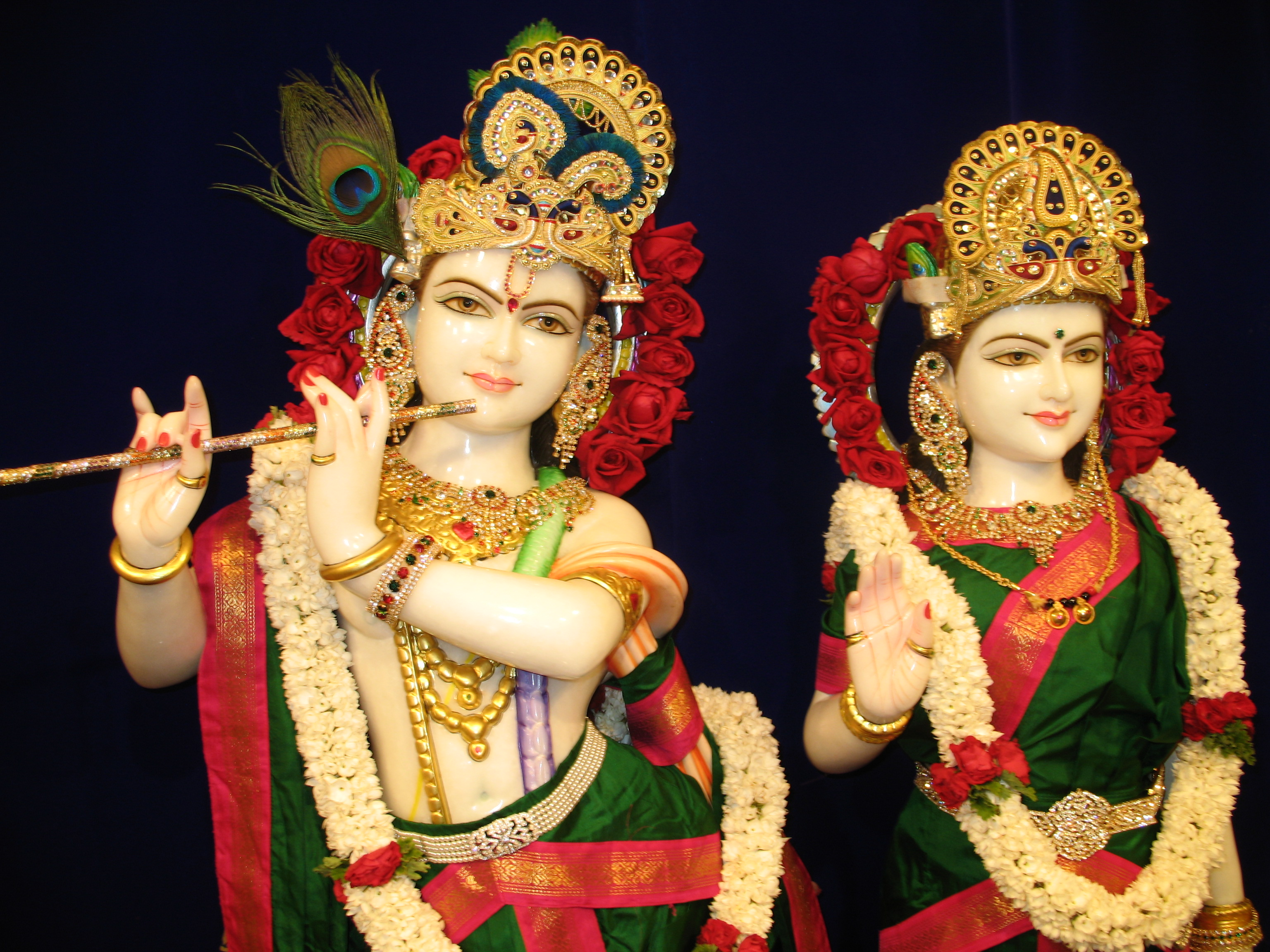 Sri Radha krishna Darshan at Vrundavan, Banshankari II Stage, Bangalore